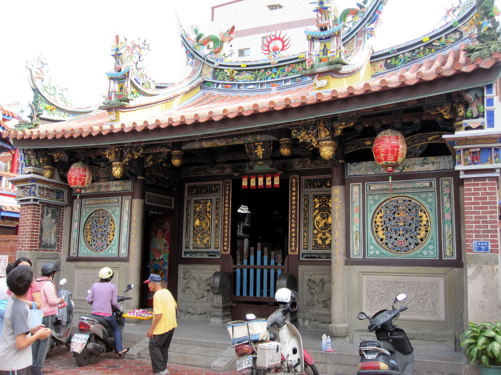 Longshan Temple is located in Fengshan District, Kaohsiung City, Taiwan.